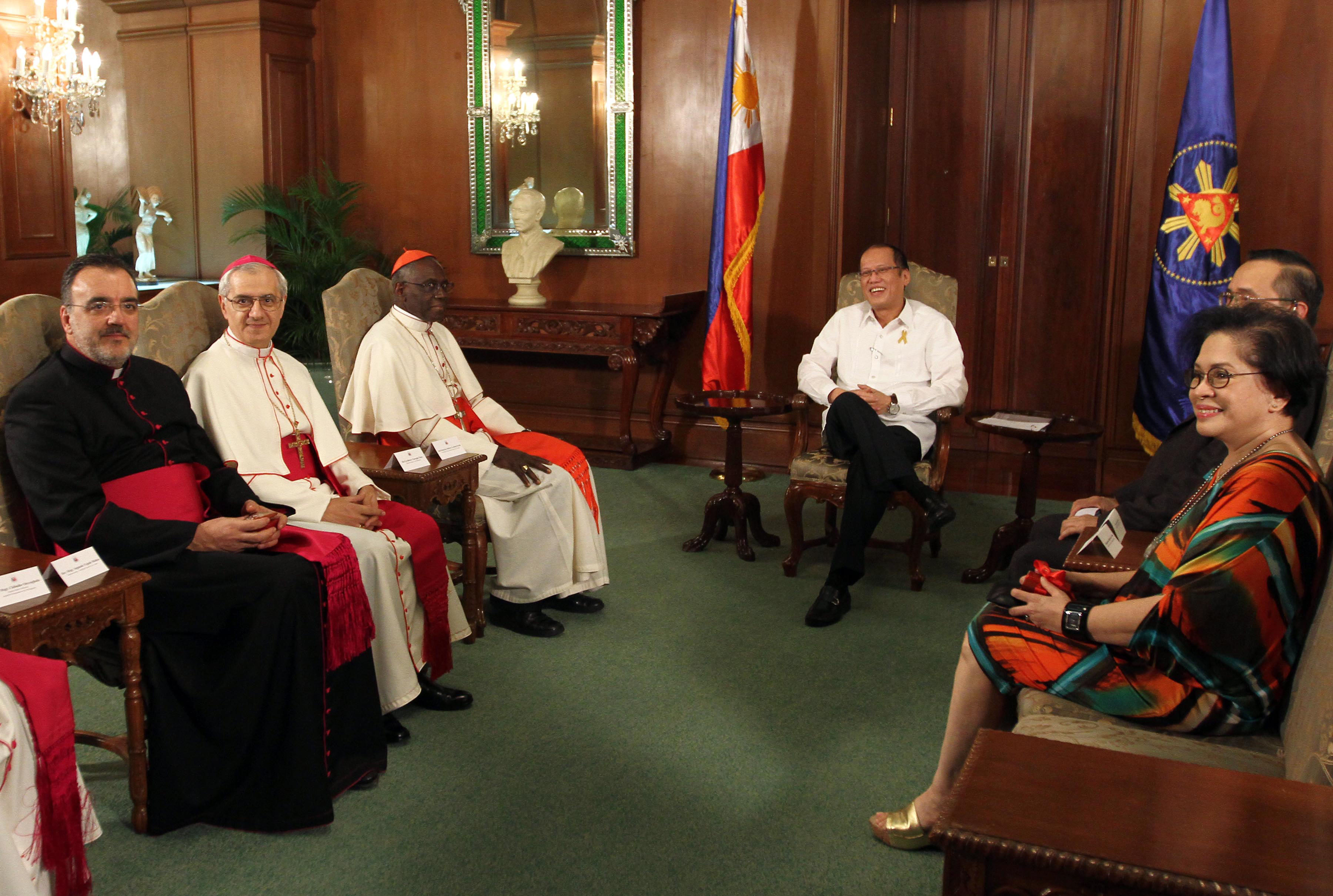 President Benigno S. Aquino III exchanges views with His Eminence Robert Cardinal Sarah, President of the Pontifical Council Cor Unum, during the Courtesy Call at the Music Room of the Malacañan Palace on Wednesday (January 29, 2014). Also in photo are Apostolic Nuncio to the Philippines His Excellency Archbishop Guiseppe Pinto, Cor Unum Undersecretary Rev. Msgr. Segundo Muñoz, Foreign Affairs Undersecretary Evan Garcia and Parish Pastoral Council for Responsible Voting (PPCRV) chairperson Henrietta de Villa. (Photo by Rolando Mailo / Malacañang Photo Bureau / PCOO)